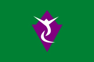 Flag of Sakae Nagano